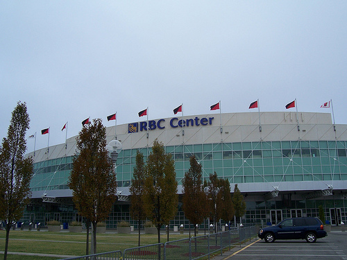 An exterior view of the RBC Center in Raleigh.